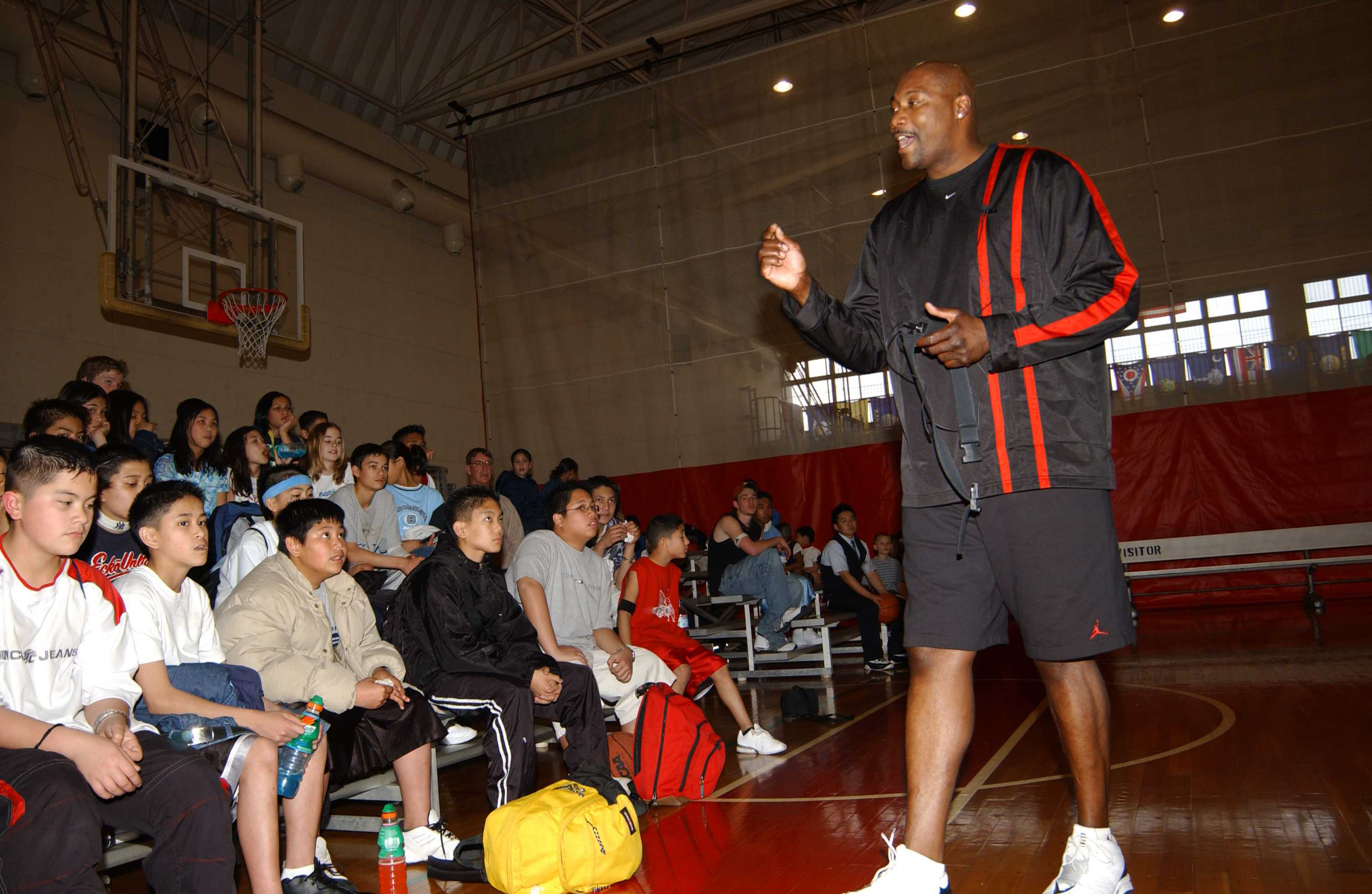 Naval Air Facility, Atsugi, Japan (Mar. 28, 2003) -- Former NBA player Jerome Kersey addresses a group of kids on the basketball court in the Naval Air Facility, Ranger Gym. Kersey taught the kids basic techniques for both the offensive and defensive aspects of the game. U.S. Navy photo by Photographer’s Mate 2nd Class Joshua.C. Millage. (RELEASED)